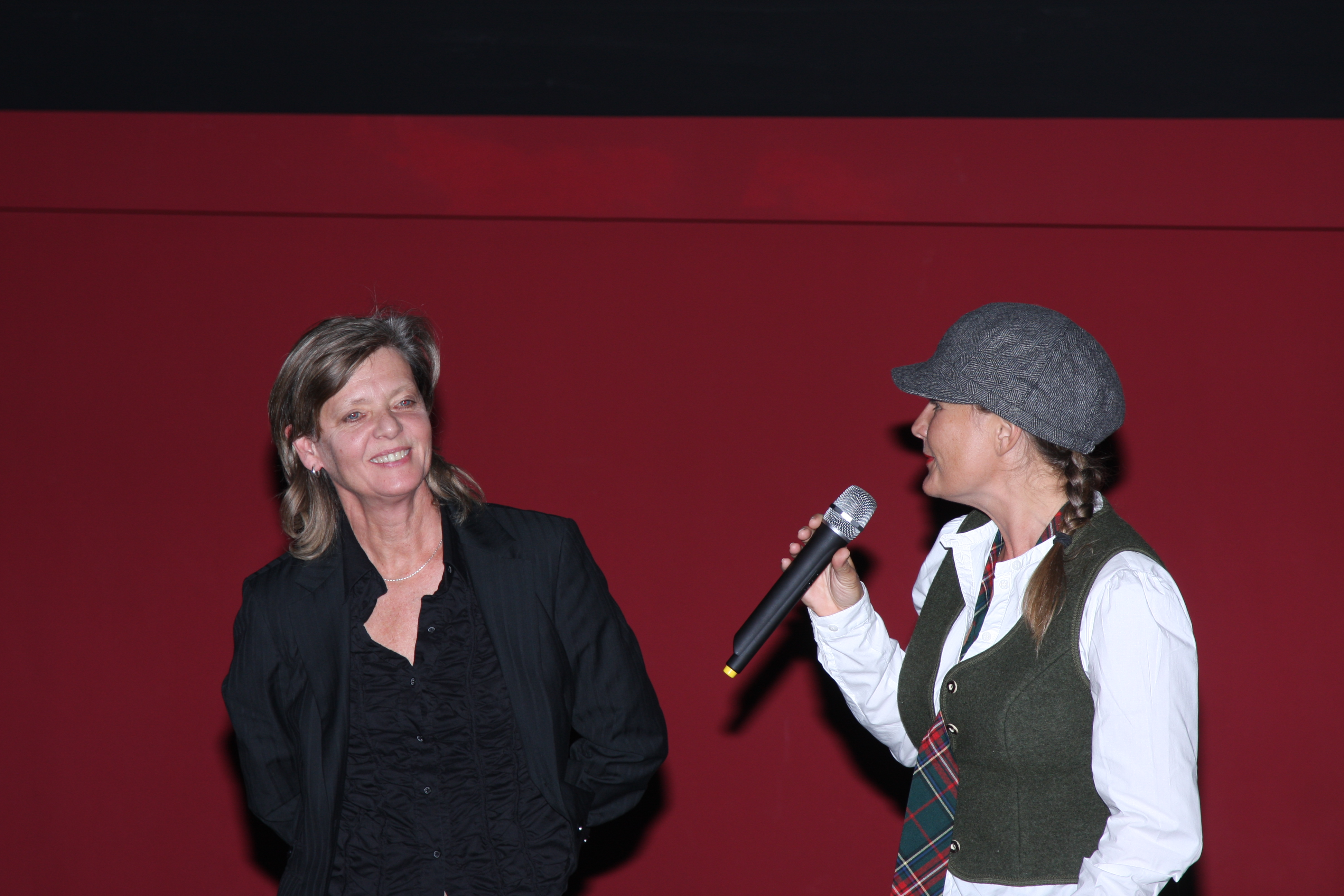 Filmmakers Iben Haahr Andersen and Minna Grooss. International Gay and Lesbian Film Festival «Side by Side»